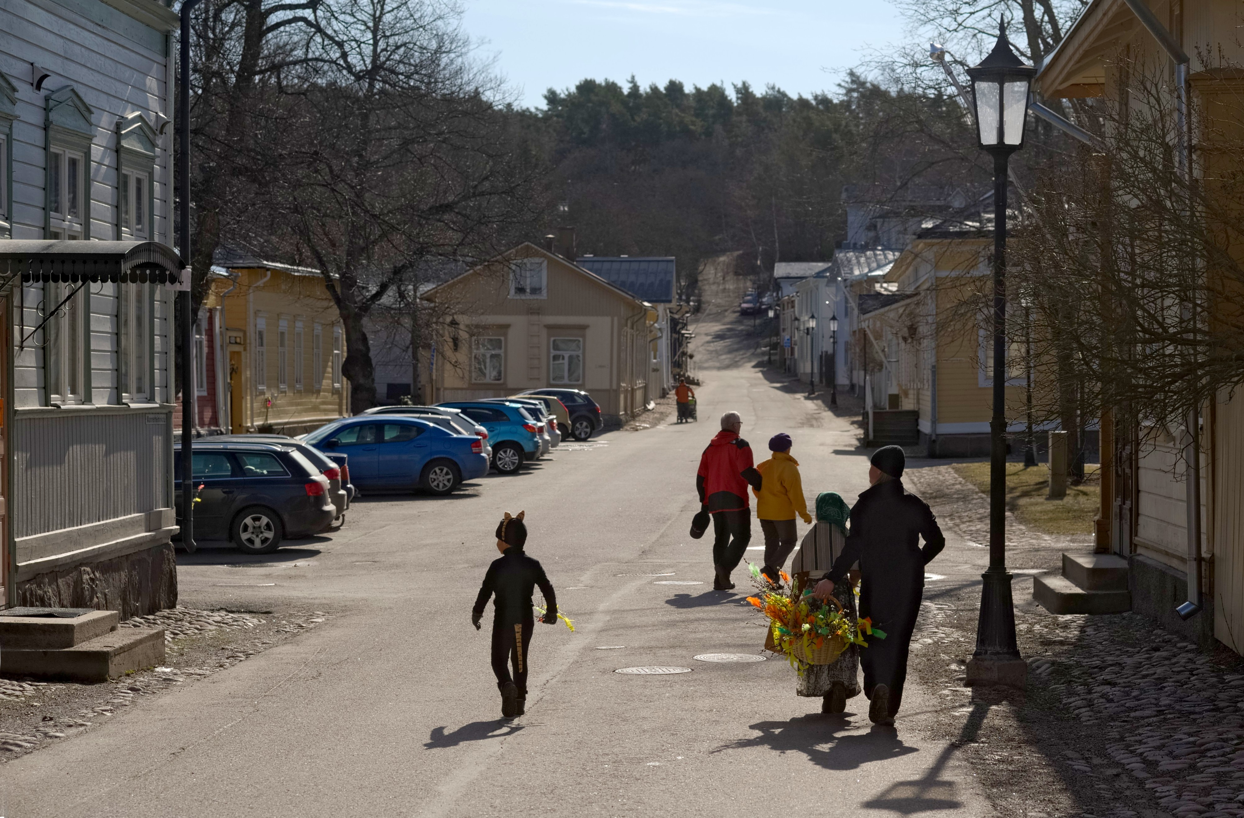 Old Town of Naantali, Finland